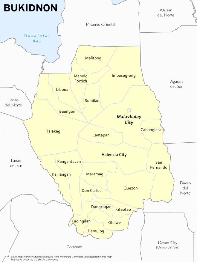 Map of Bukidnon showing its 20 municipalities and 2 component cities.